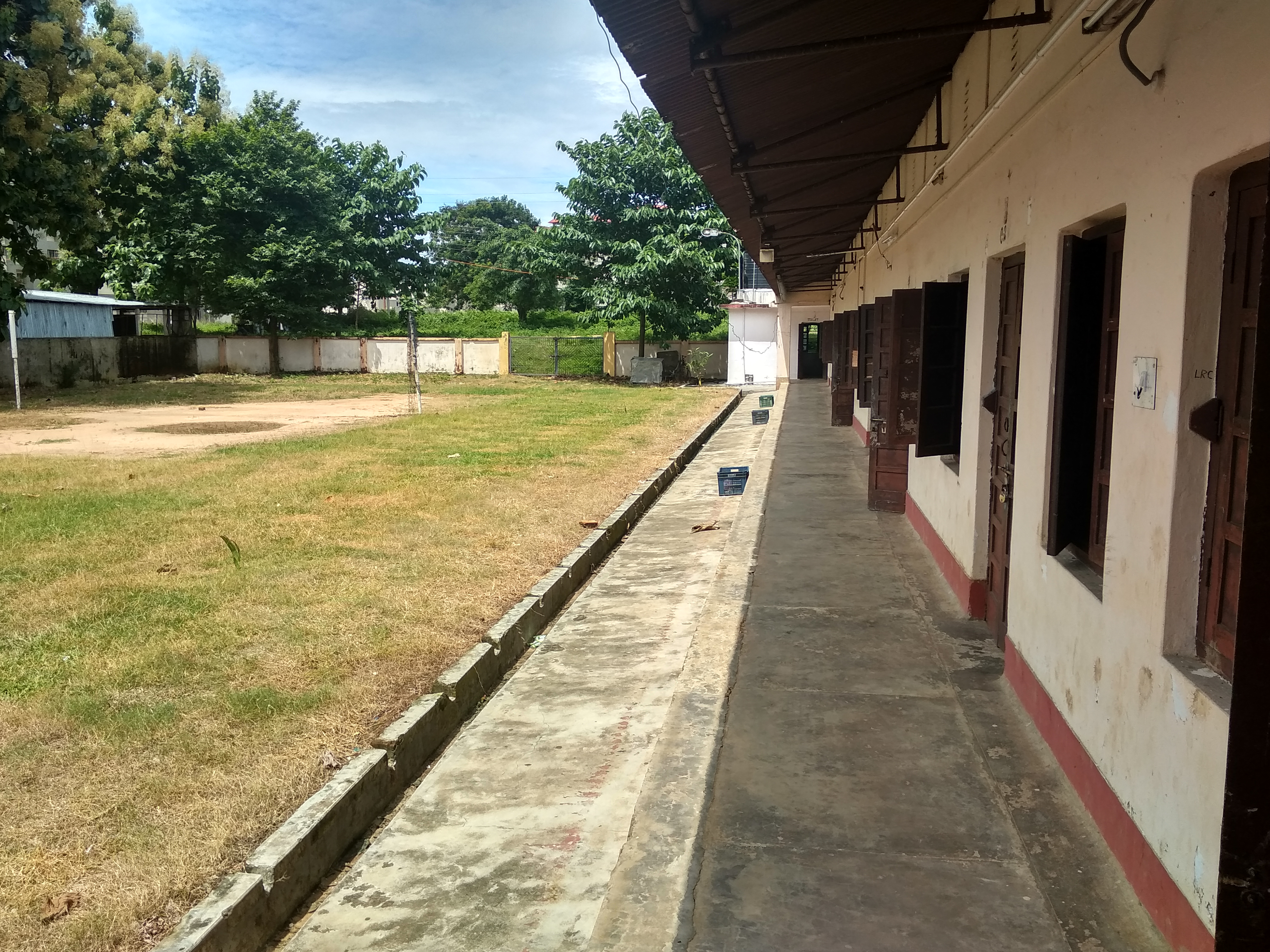 Old Dorm Room Row at NIT Agartala, Tripura. These Hostels are now Abandoned.